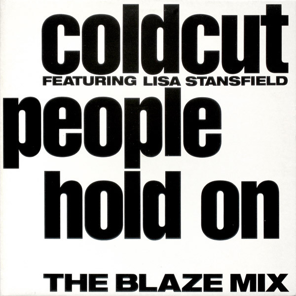 "People Hold On" (The Blaze Mix) by Coldcut featuring Lisa Stansfield; UK/European 12-inch vinyl release